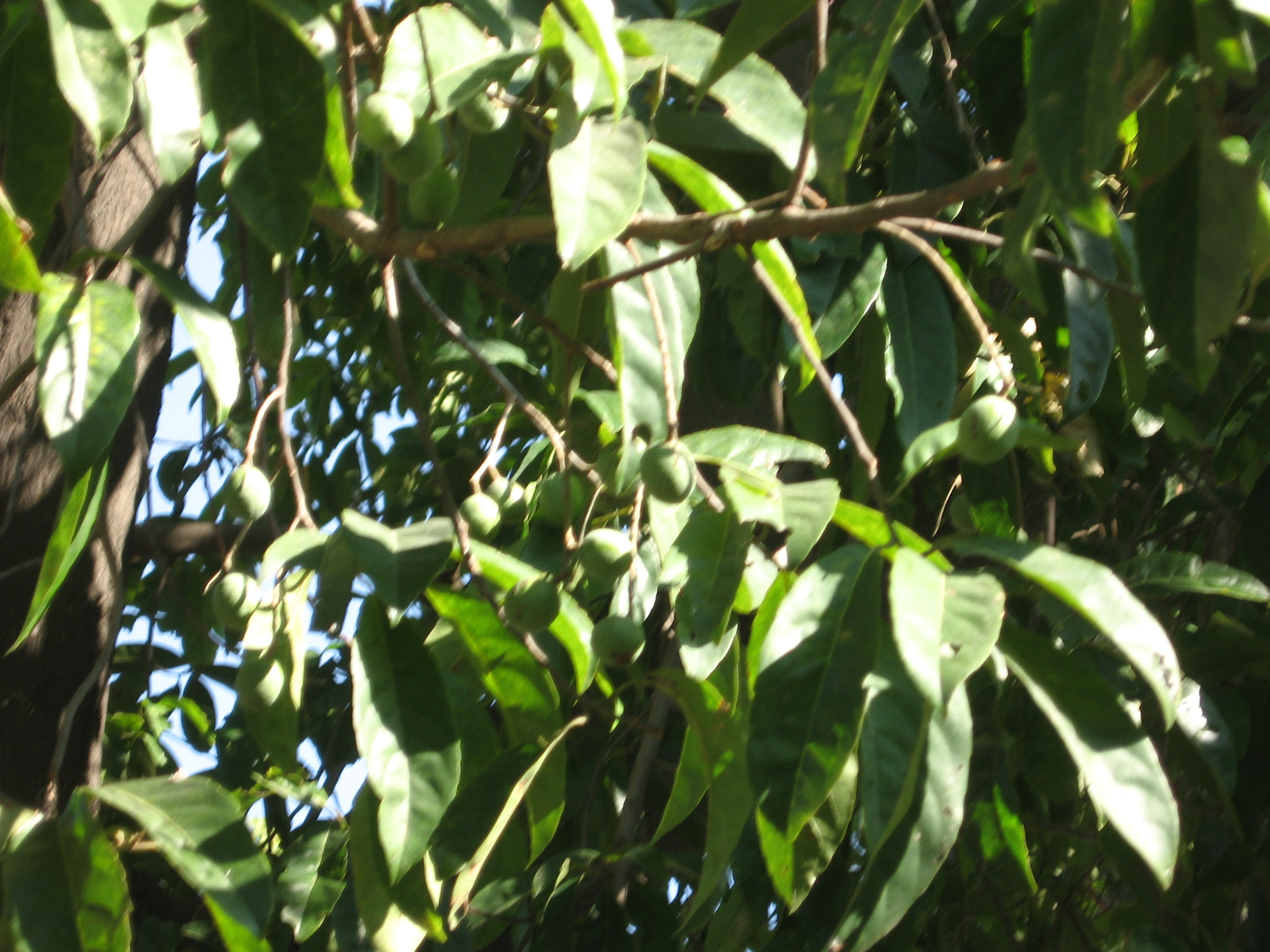 Taken by myself, Kapil Subramanian, not copyrighted, free for use.